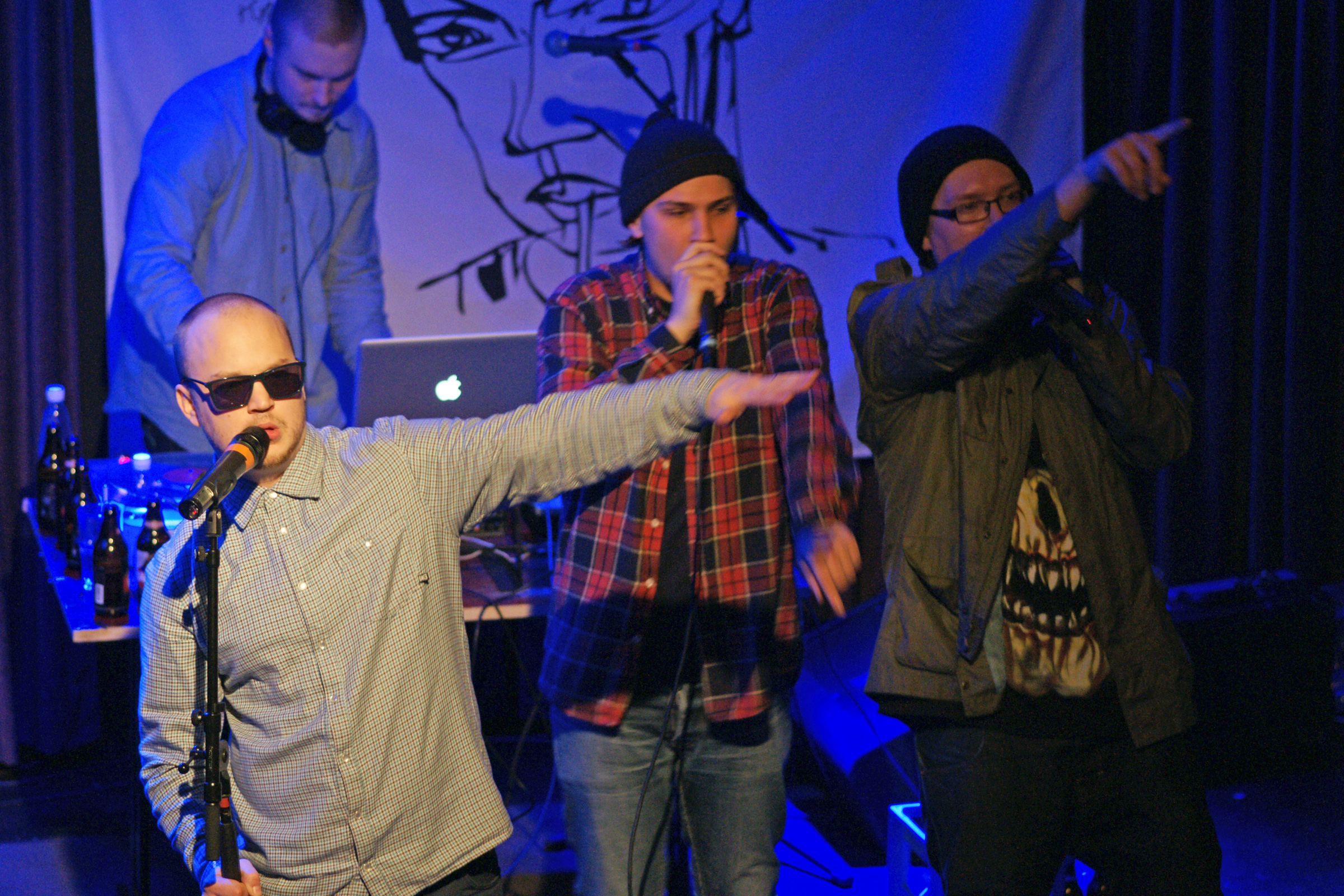 Ruger Hauer performing at Bar Kino, Pori, Finland.